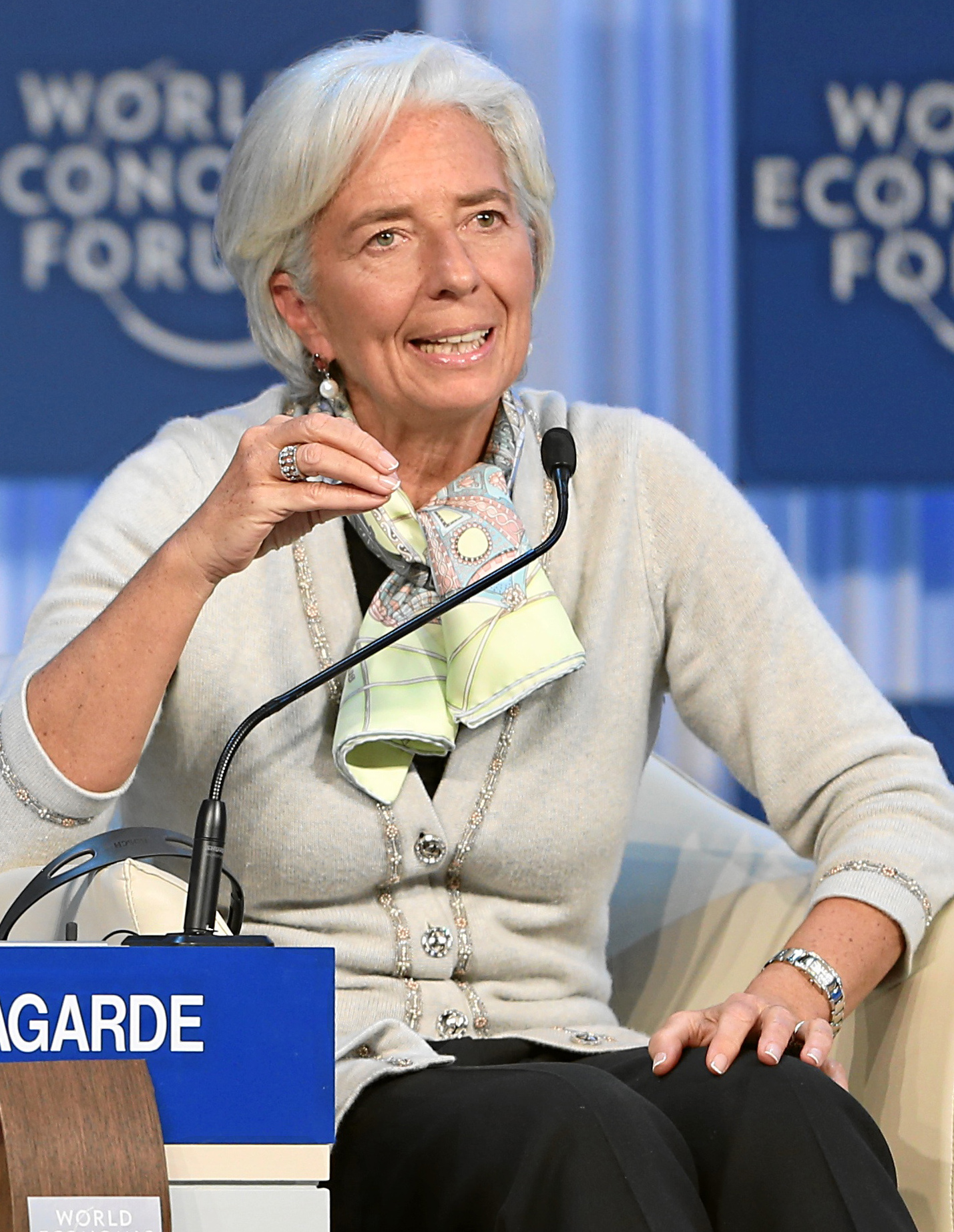 DAVOS/SWITZERLAND, 26JAN13 - Christine Lagarde (R), Managing Director, International Monetary Fund (IMF), Washington DC; World Economic Forum Foundation Board Member and Martin Wolf (L), Associate Editor and Chief Economics Commentator, Financial Times, United Kingdom; Global Agenda Council on New Growth Models captured during the Session 'The Global Economic Outlook' at the Annual Meeting 2013 of the World Economic Forum in Davos, Switzerland, January 26, 2013.. . Copyright by World Economic Forum. . Moritz Hager